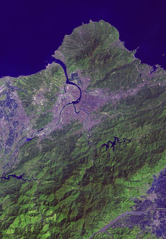 The raw satellite imagery shown in these images was obtain from NASA and/or the US Geological Survey. Post-processing and production by